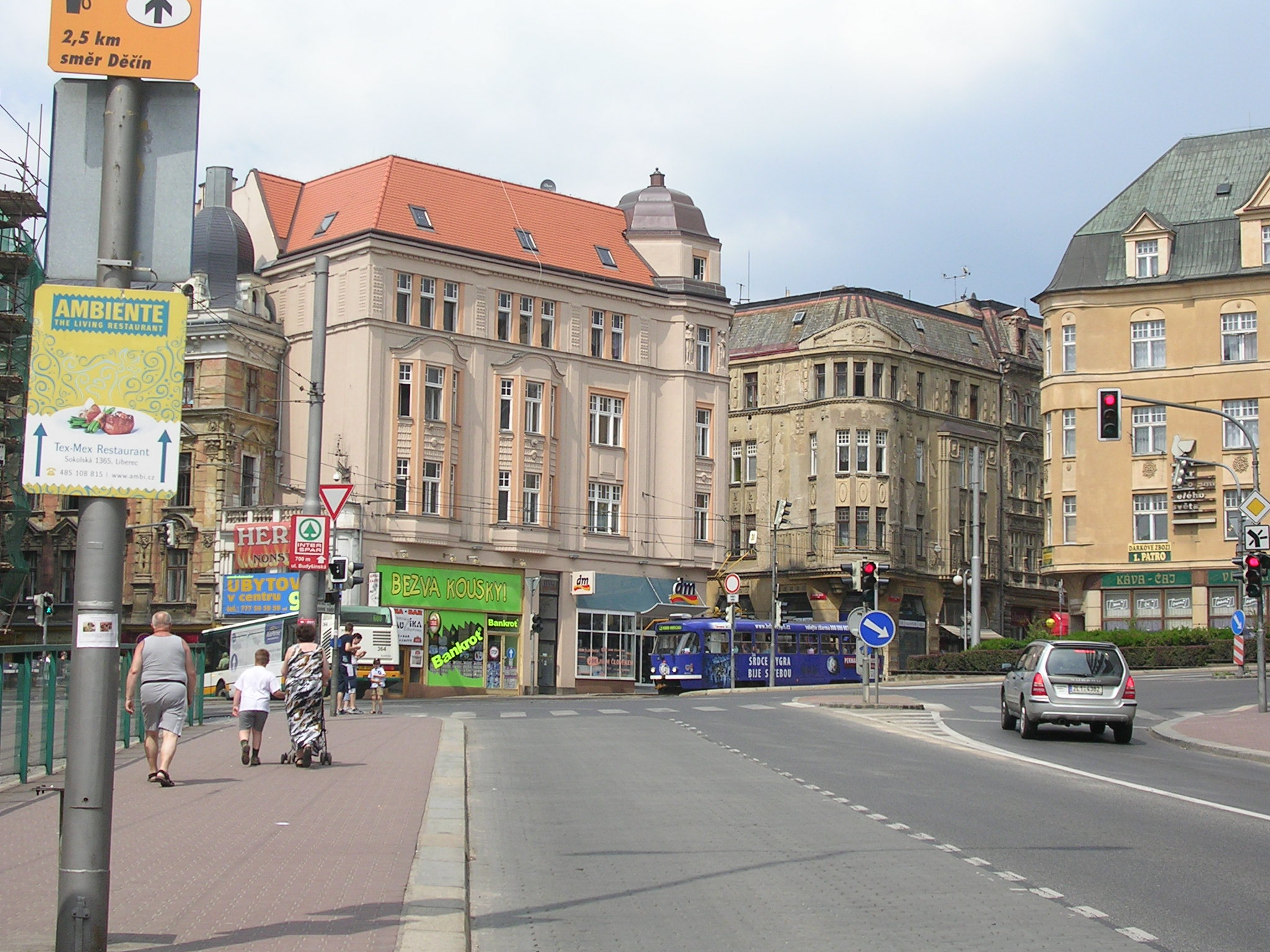 Liberec. The Czech Republic.